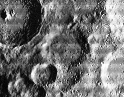 Pictet lunar crater - Lunar Orbiter IV image LO iv 119 h2